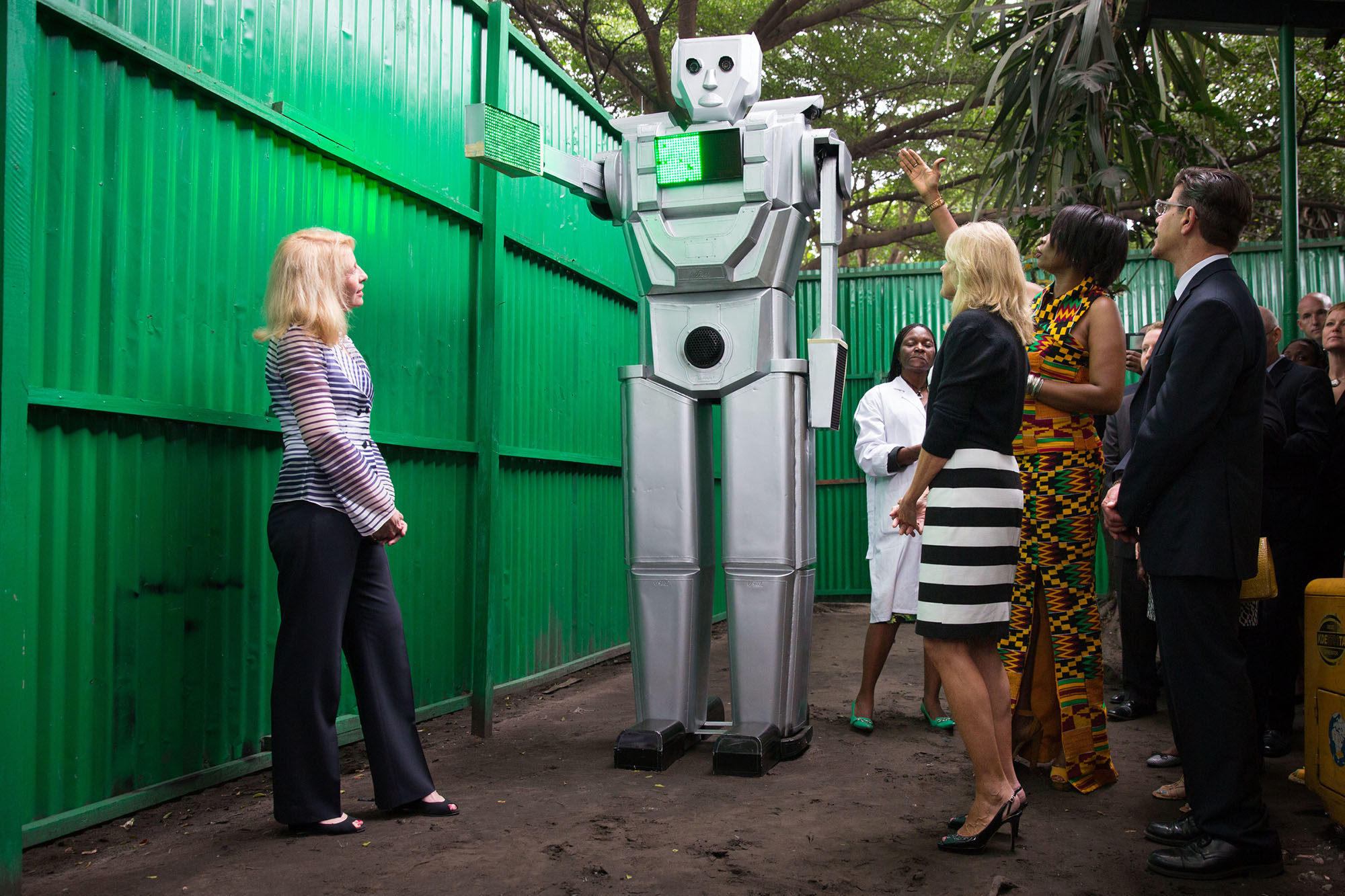 Dr. Jill Biden and Cathy Russell, U.S. Ambassador-at-Large for Global Women's Issues, are briefed by Thérèse Izay Kirongozi, during a tour of the Kinshasa Traffic Robot Lab, in Kinshasa, Democratic Republic of Congo, July 4, 2014. Robots are being developed to aid pedestrians in crossing congested streets.